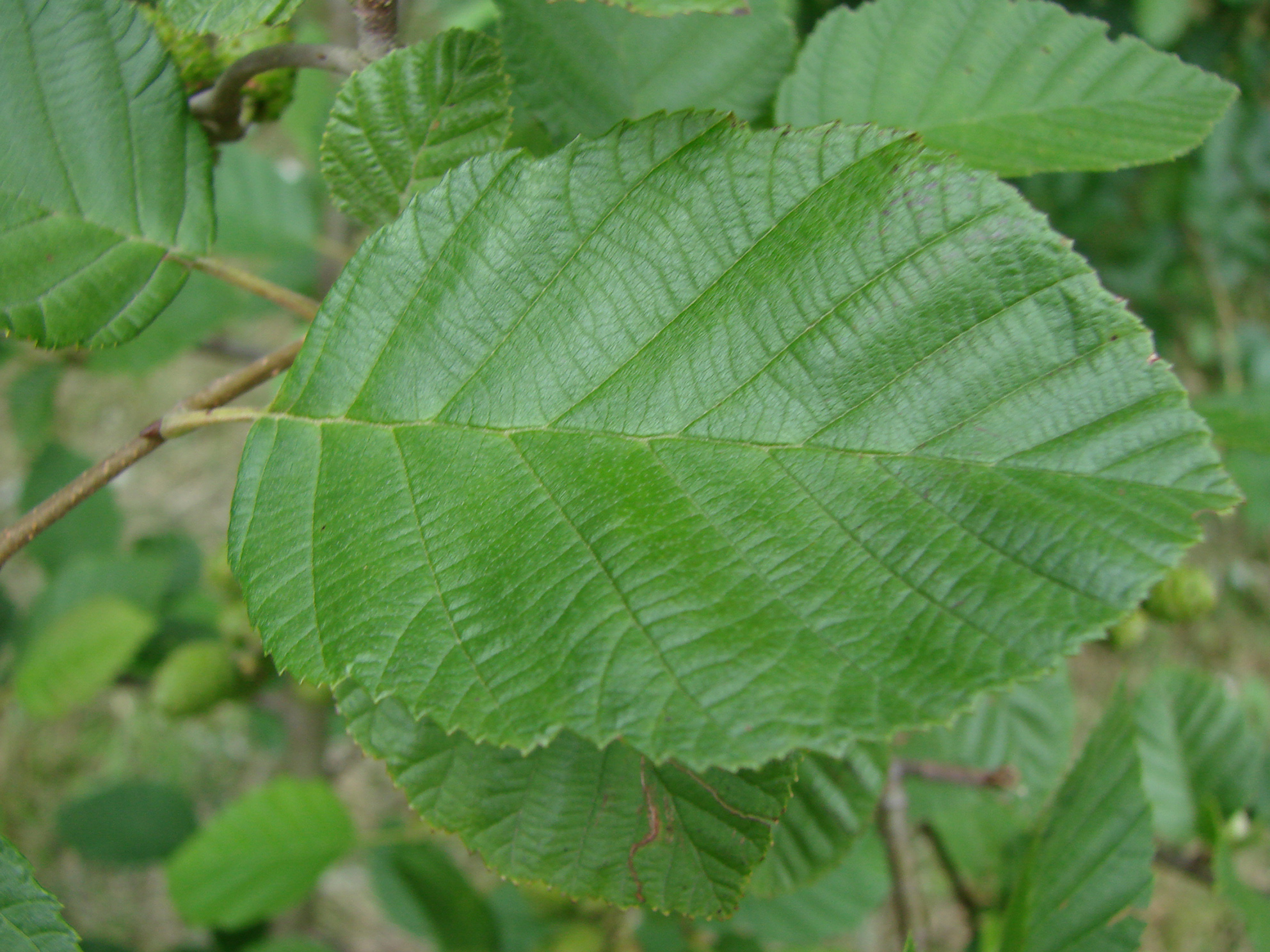 Leaf of Alnus incana.